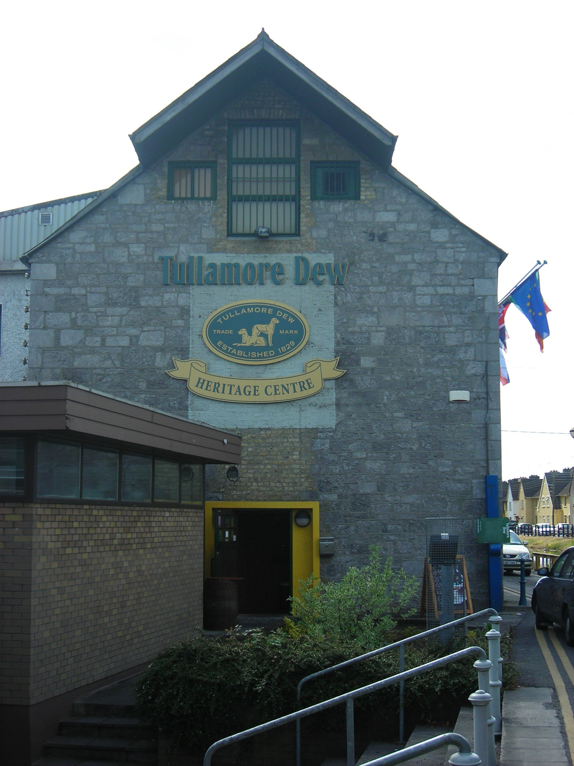 Tullamore Dew Heritage Centre, Museum and Pub in Tullamore, Ireland.